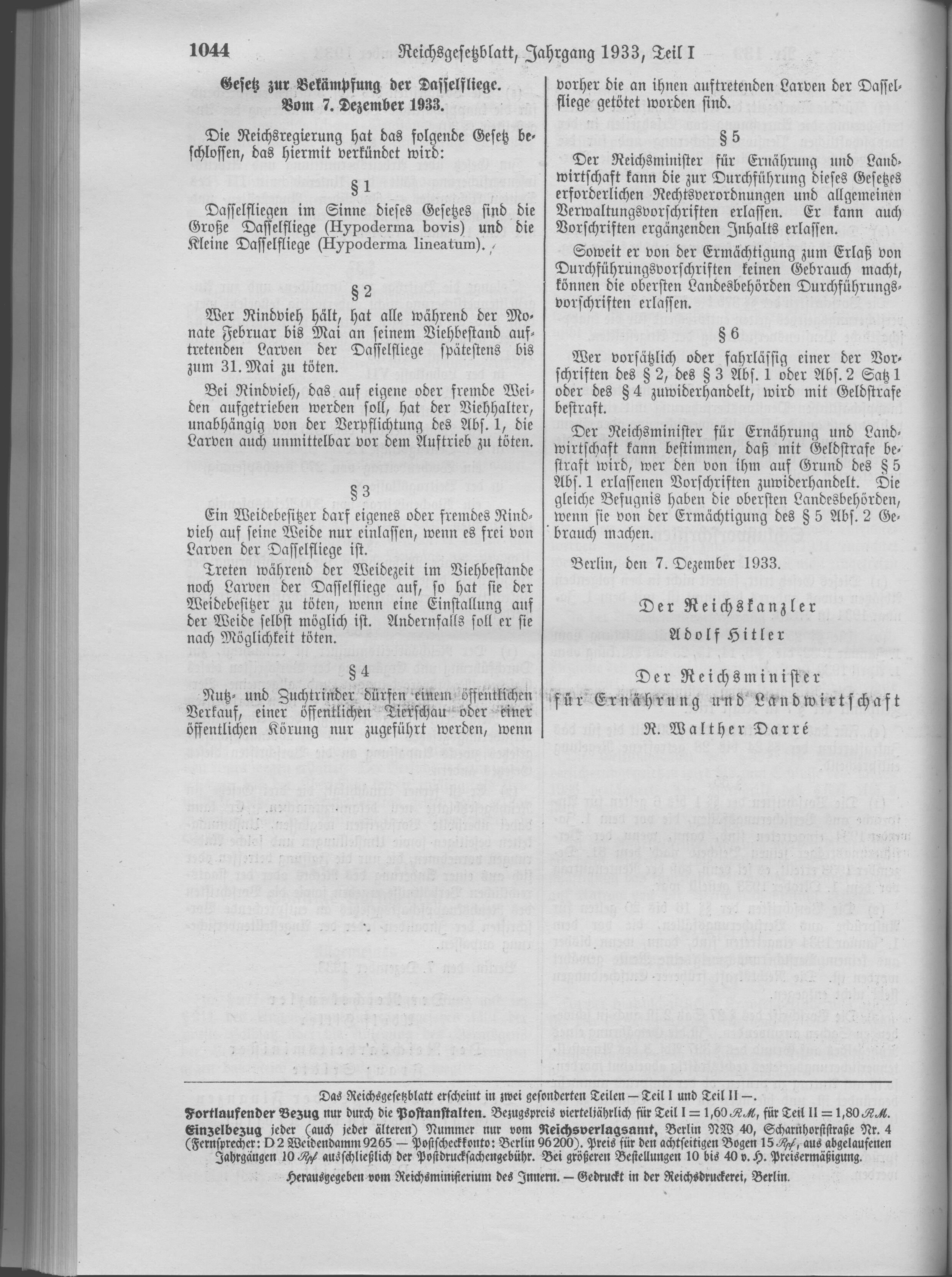 Scan from the Imperial Law Gazette of Germany, 1933, part 1